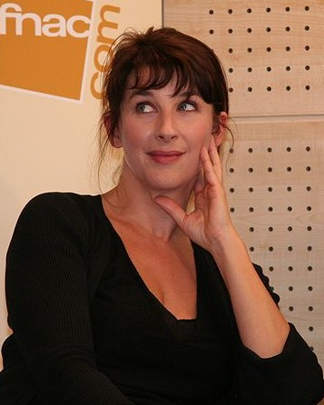 Rendezvous with Jacques Weber, Jean-Claude Houdinière, Isabelle Gélinas and Michel Vuillermoz at Fnac Saint-Lazare (Paris, France).